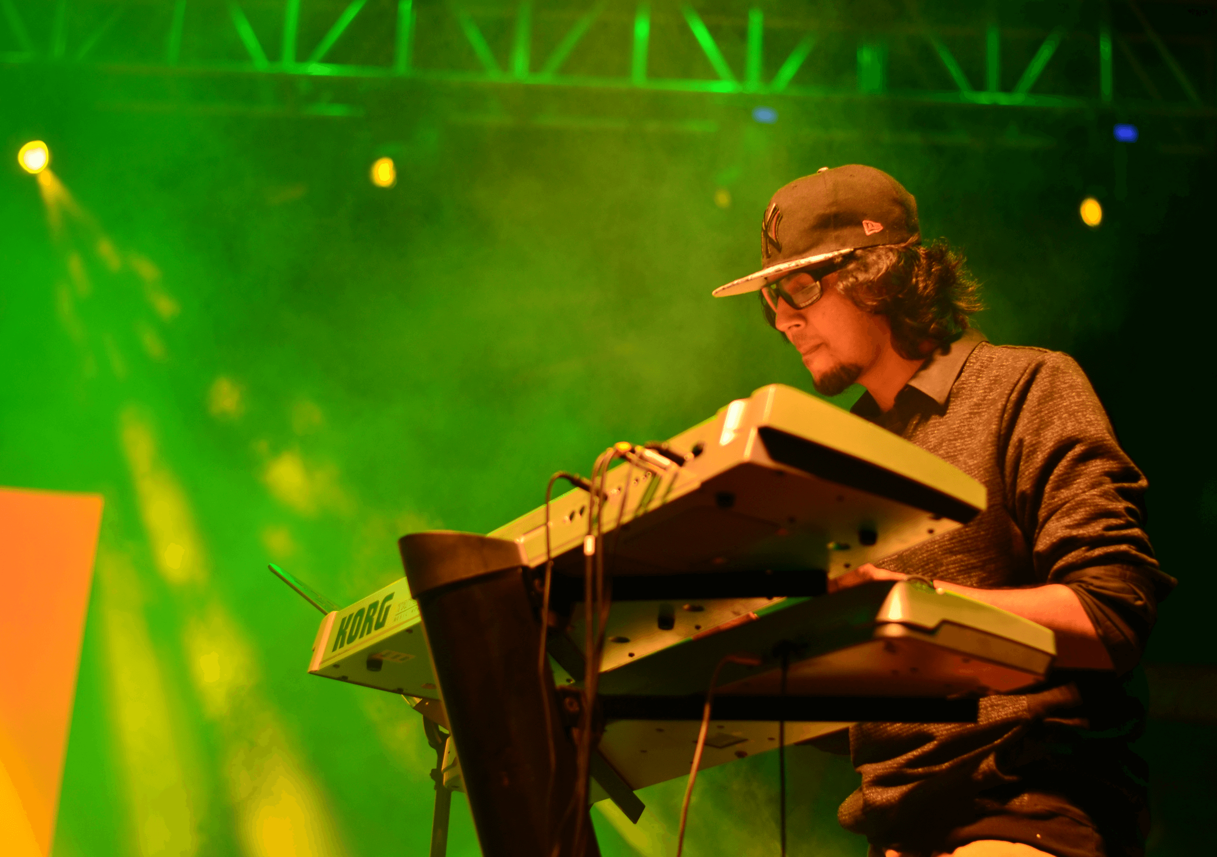 An International Band performing at Kuruksastra '14